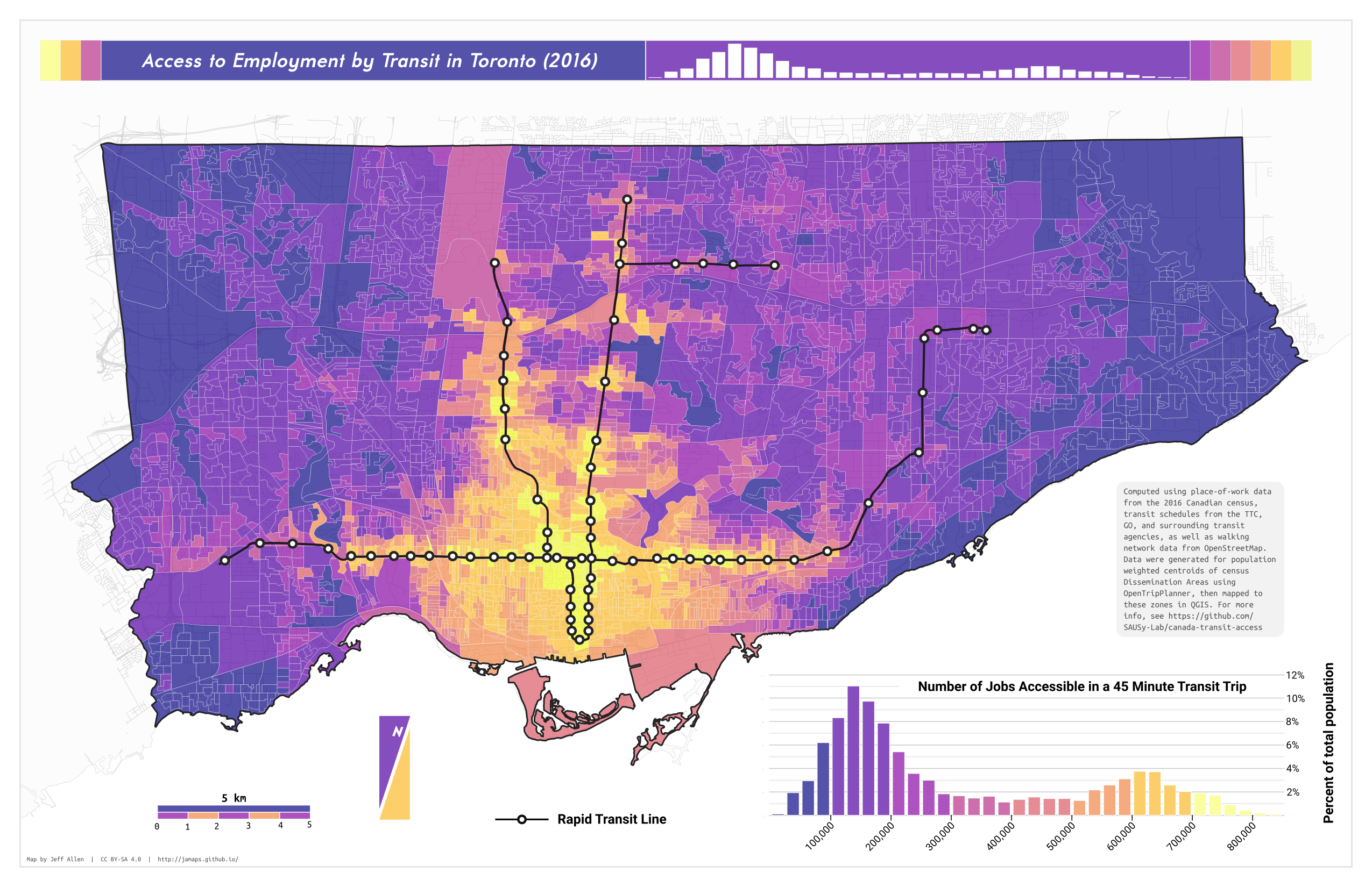 Access to jobs by public transit in Toronto (from 2016 data)